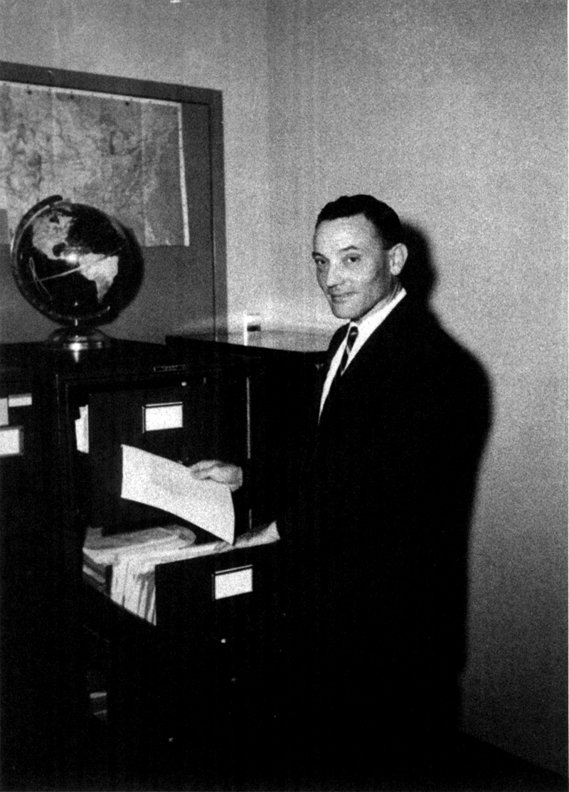 "Richard G. Hewlett opening the Bush-Conant secret wartime file at the Atomic Energy Commission Office, Washington, D.C.. 1958. When Hewlett first opened this safe in the basement of the AEC building on Constitution Avenue, its contents were unknown to anyone at the AEC. (Photograph courtesy of the U.S. Atomic Energy Commission.)"